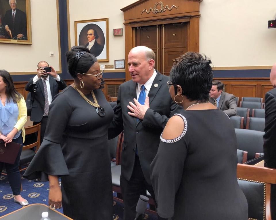 It was great to hear from Diamond And Silk today in the House Judiciary Committee hearing re: filtering practices of social media!